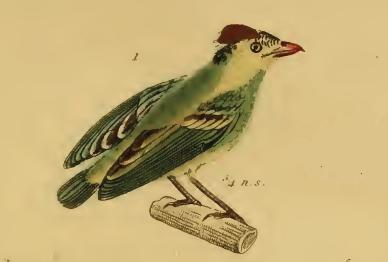 Animal Kingdom Volume 1 Mammals to Birds (English Translation). Pardalotus cristatus (=Calyptura cristata). From Plate 16.